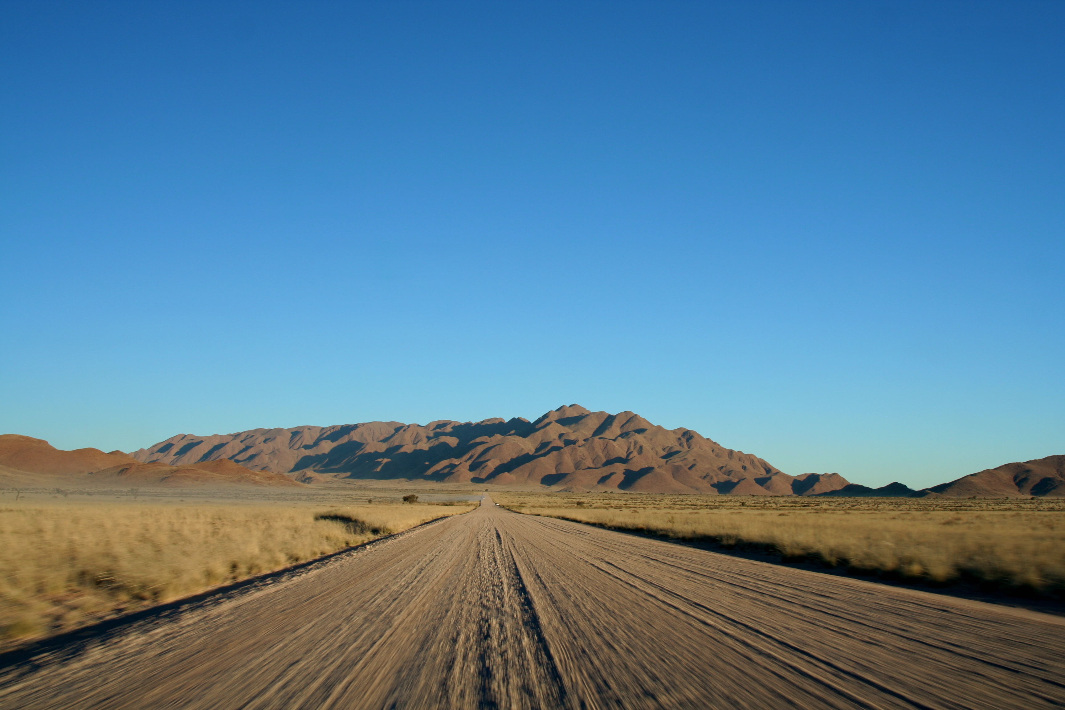 This is an image with the theme "Africa on the Move or Transport" from: Namibia